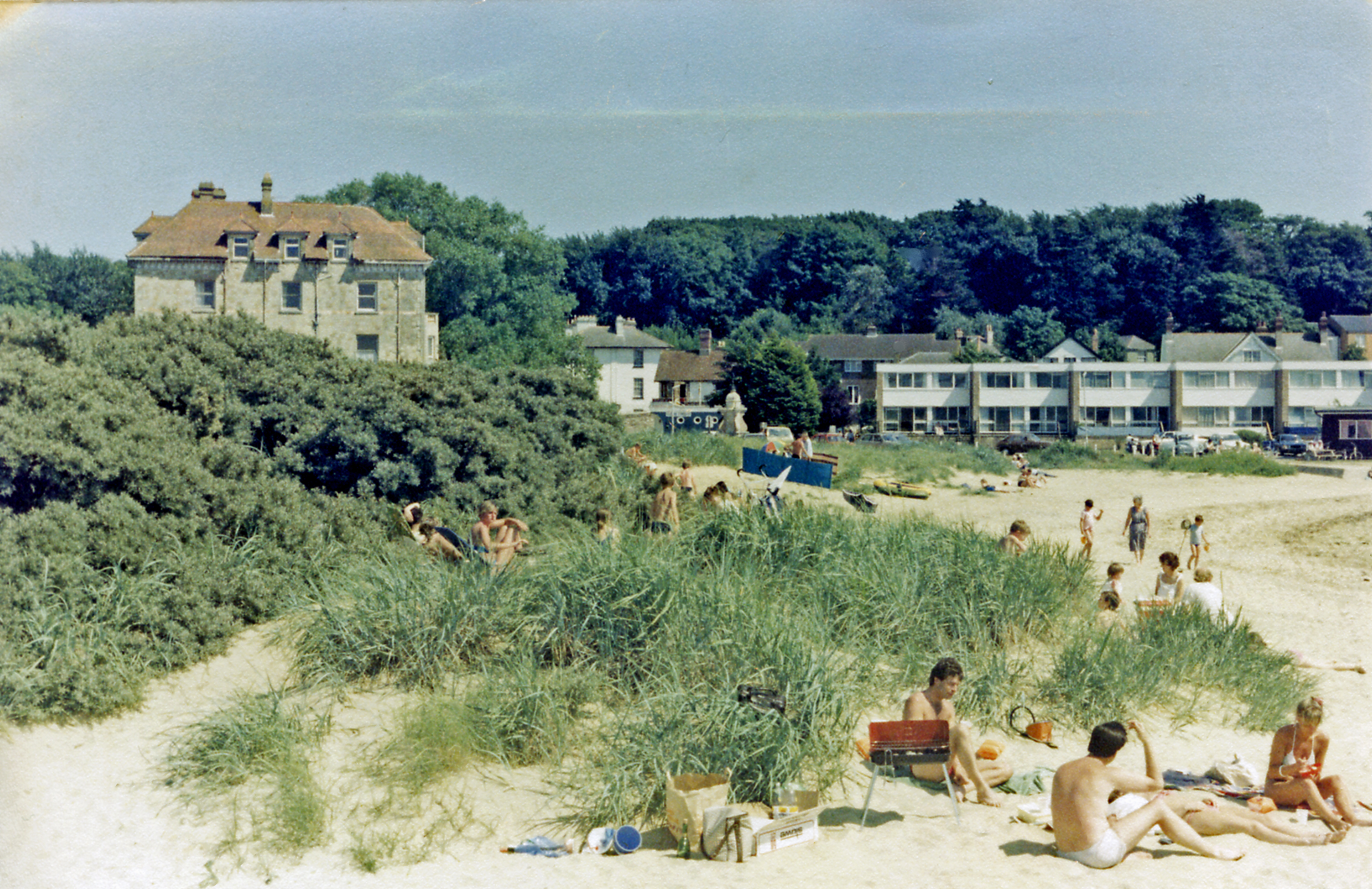 Site of Bembridge station, 1985. View northward, to buffer-stops of the terminus of the ex-Isle of Wight Railway branch from Brading, closed 21/9/53.